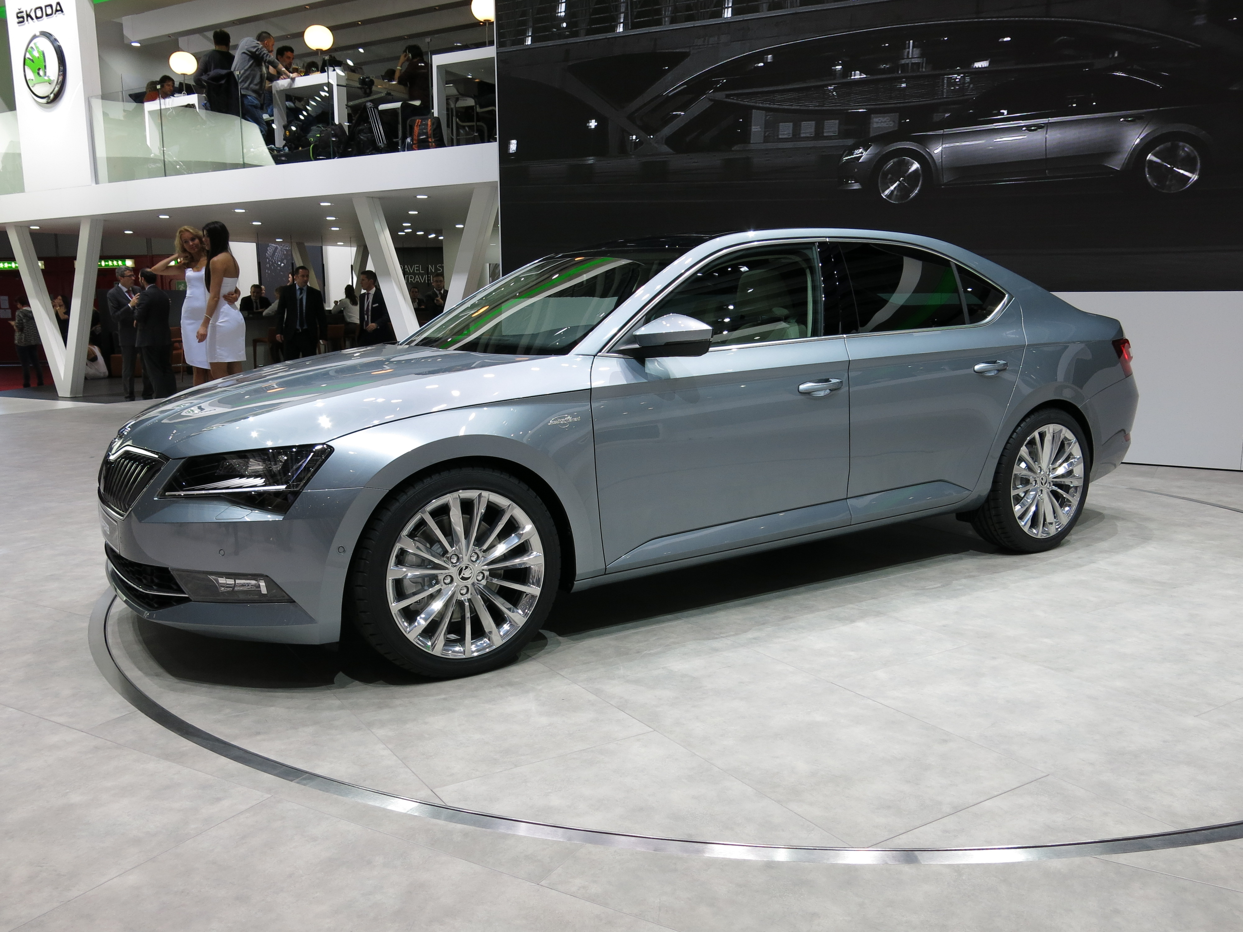 Geneva Motor Show 2015 (photo taken on the first press day)